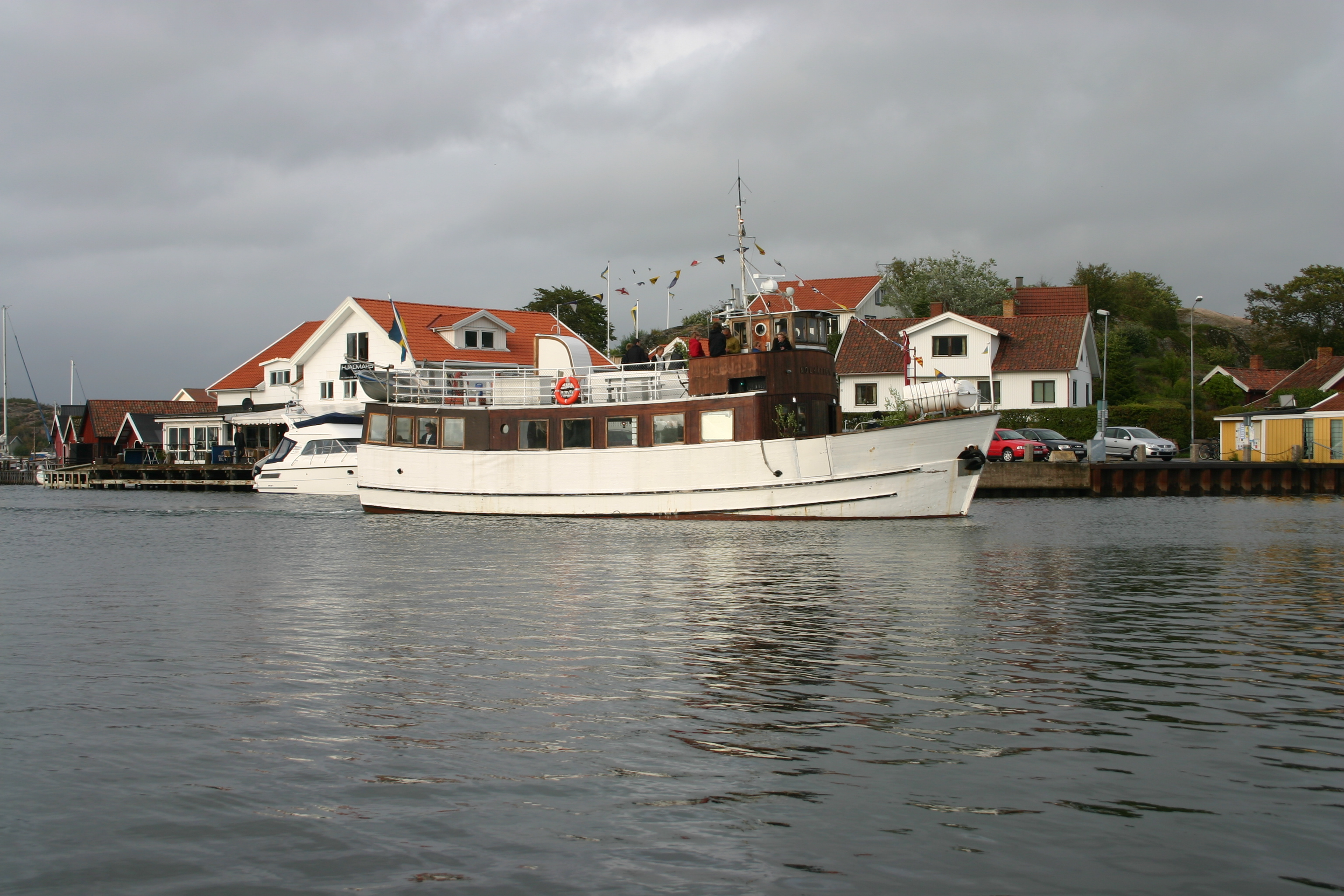 Passenger boat, "M/S Nolhotten", Hamburgsund, Sweden